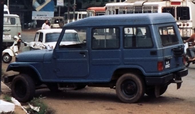 A Mahindra Jeep (looks to be a 1992 or later MM 775 3-door Hardtop) in Goa, India, October 1994.